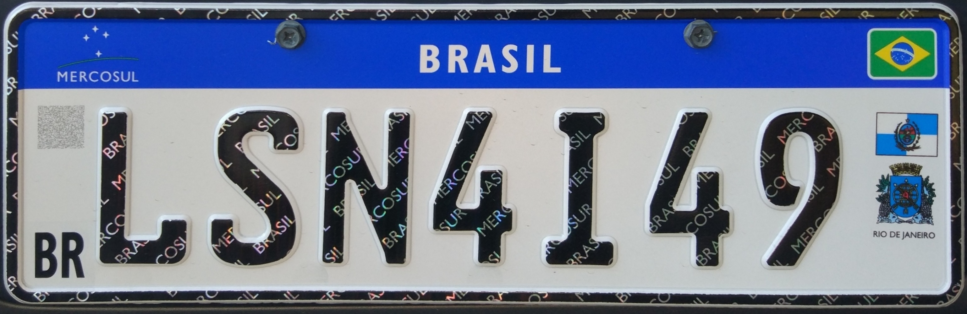 Brazilian vehicle license plate conforming to common Mercosur standard. Issued to a private-use vehicle registered in Rio de Janeiro, RJ, Brazil.